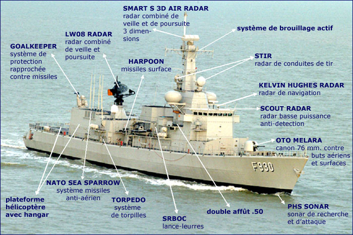 The main armament of the "F930 Leopold I", a Karel Doorman-class frigate in service with the naval component of the Belgian Army. Picture used with permission from For details of the permission